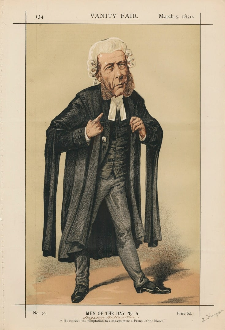 Caricature of William Ballantine. Caption reads "He resisted the temptation to cross-examine a Prince of the blood".